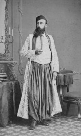 Photograph of Elzéar Emmanuel Arène Abeille de Perrin (1843-1910)